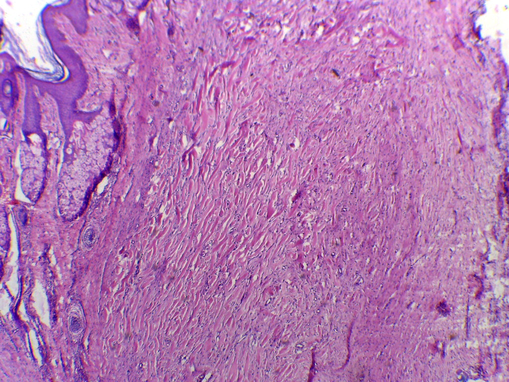 Micrograph of keloid. Thick, hyalinised collagen fibres are characteristic of this aberrant healing process. H&E stain.